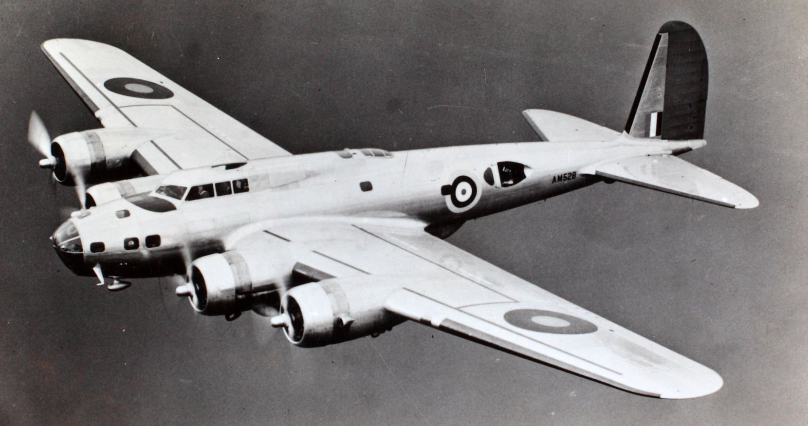 Image from the Charles Daniels Photo Collection album "British Aircraft." SOURCE INSTITUTION: San Diego Air and Space Museum Archive